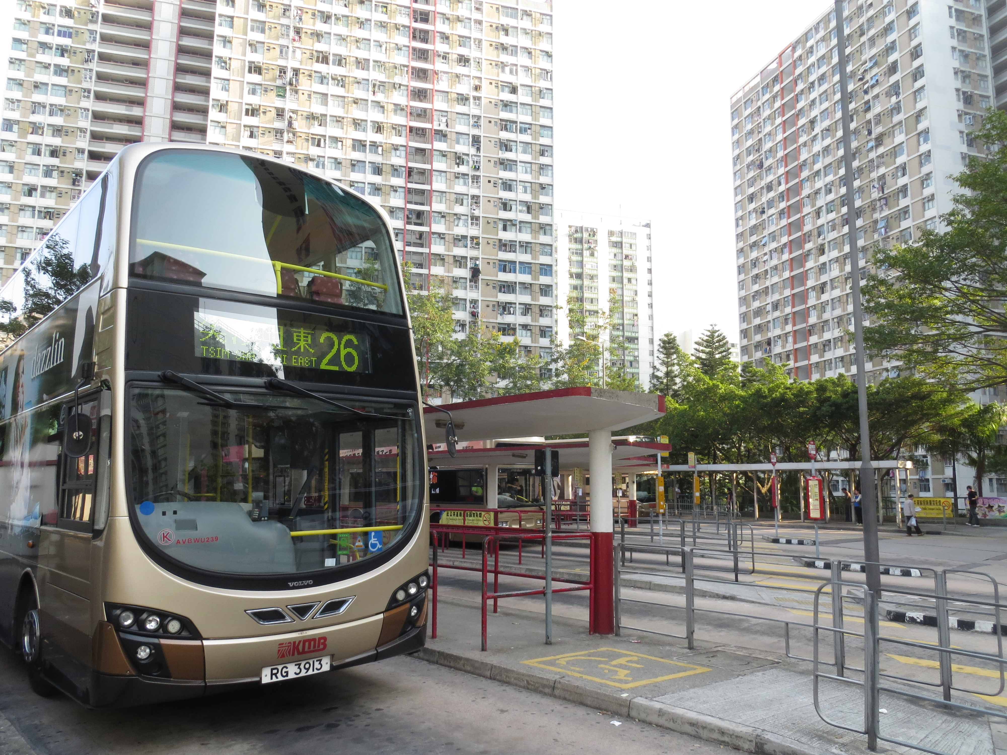 A KMB Route No. 26 bus at the Shun Tin Bus Terminus, Kwun Tong, Kowloon, Hong Kong.